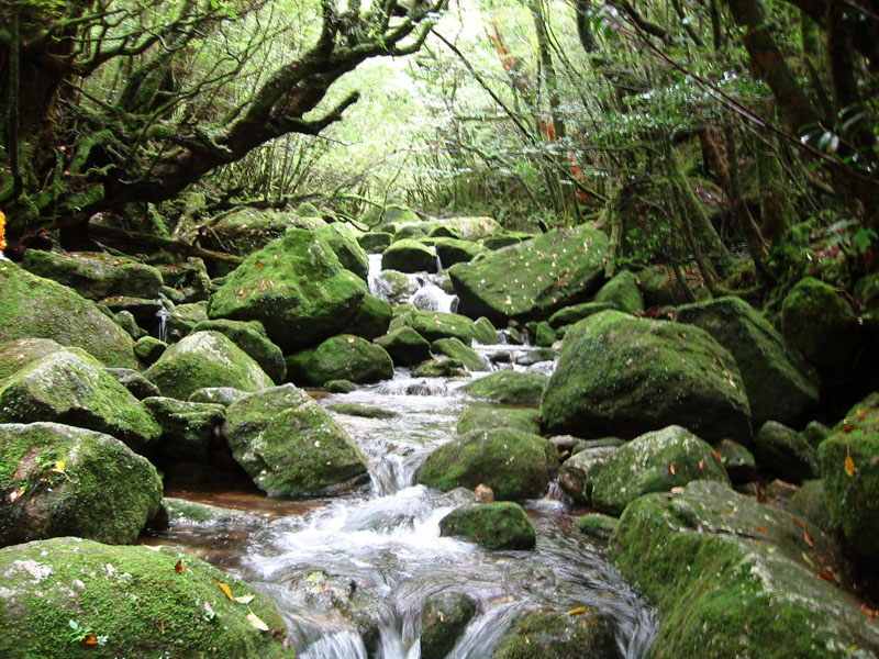 Shiratani Unsuikyo in Yaku Island